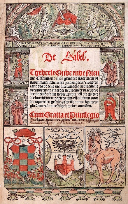 Frontpage of Vorstermanbible 1528